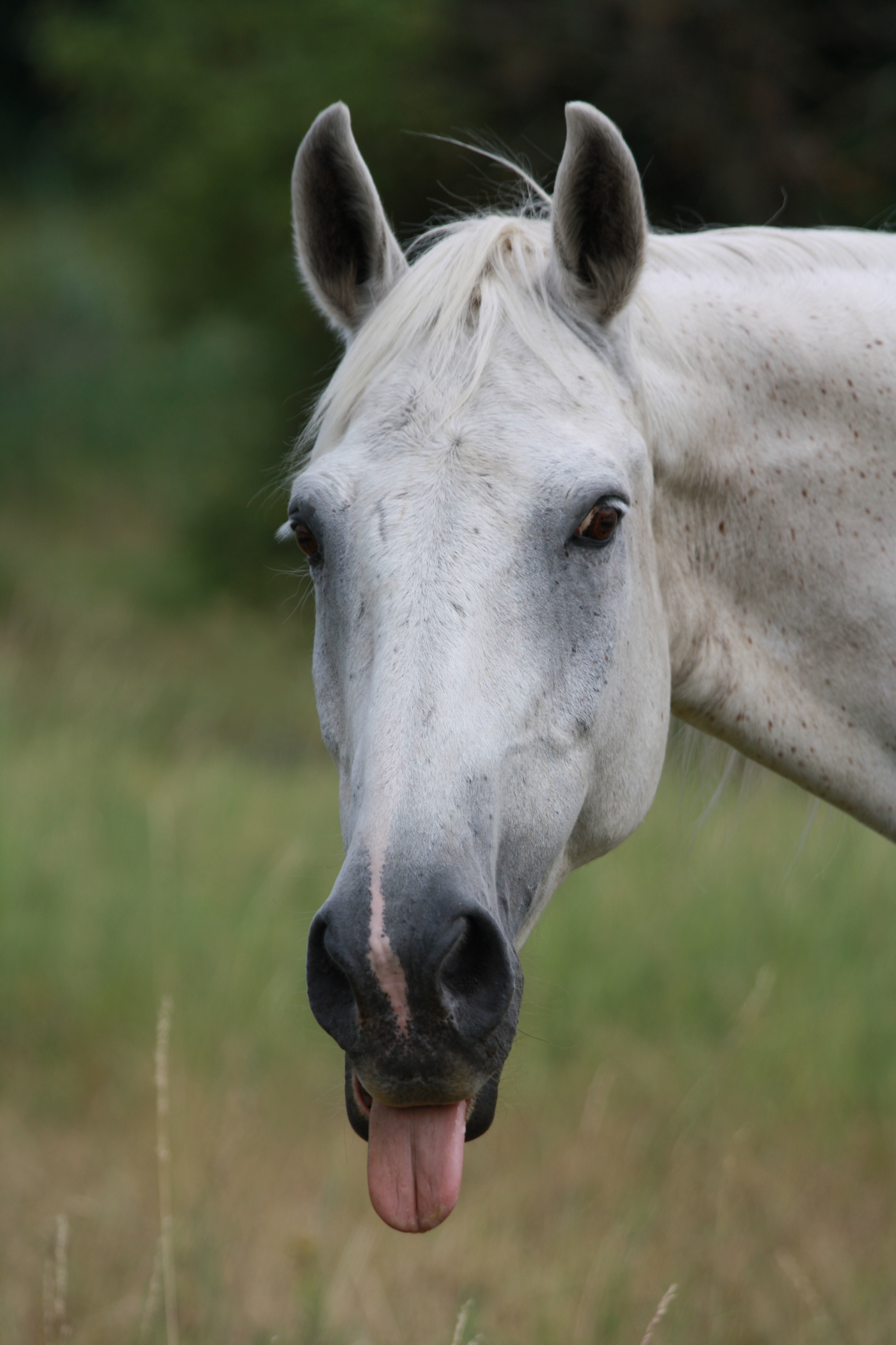 Horse poking his tongue out.